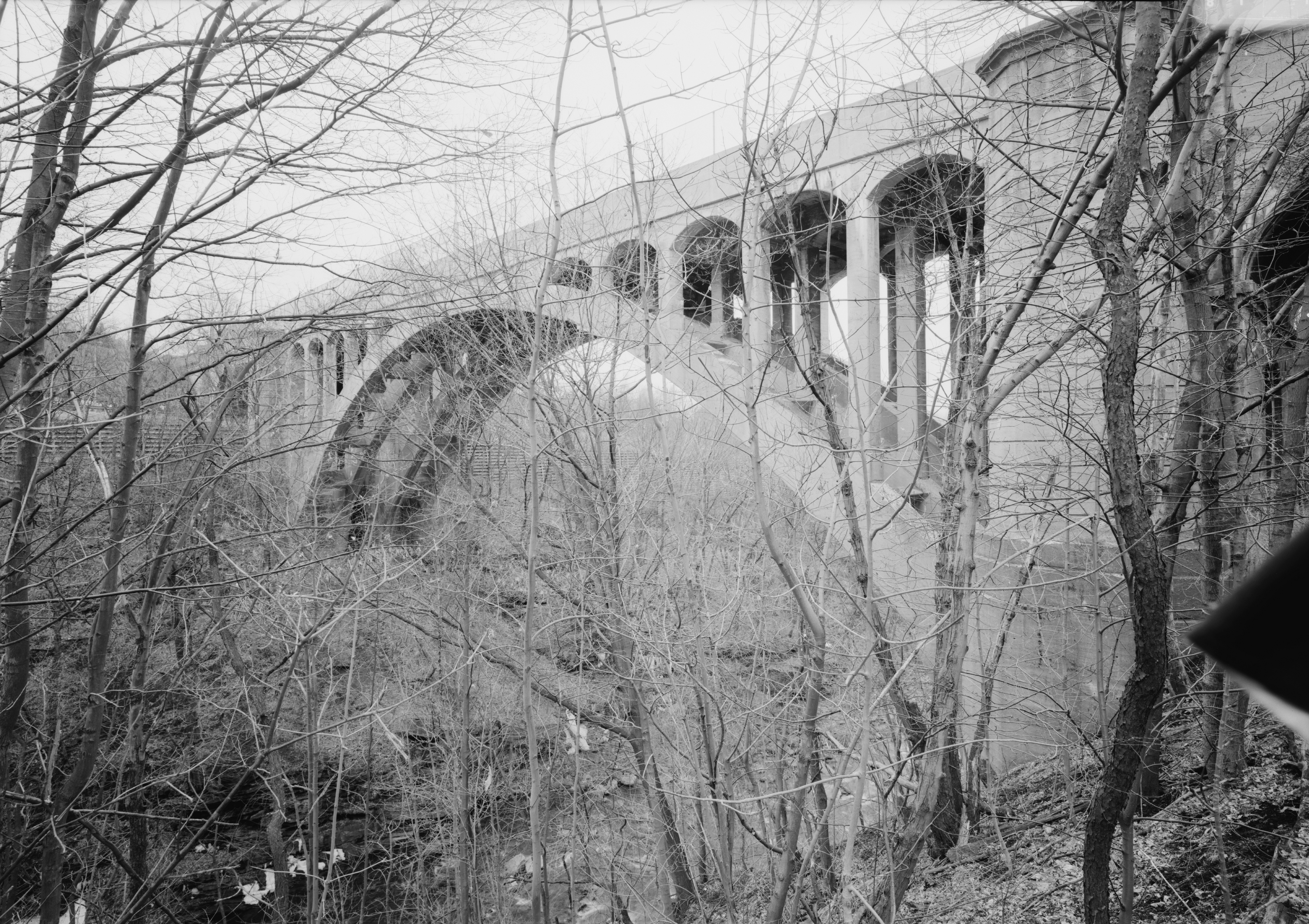 Harrison Avenue Bridge, Spanning Roaring Brook and Central Scranton Expressway (State Route 3022) at Harrison Avenue (State Route 6011), Scranton, Lackawanna County, PA